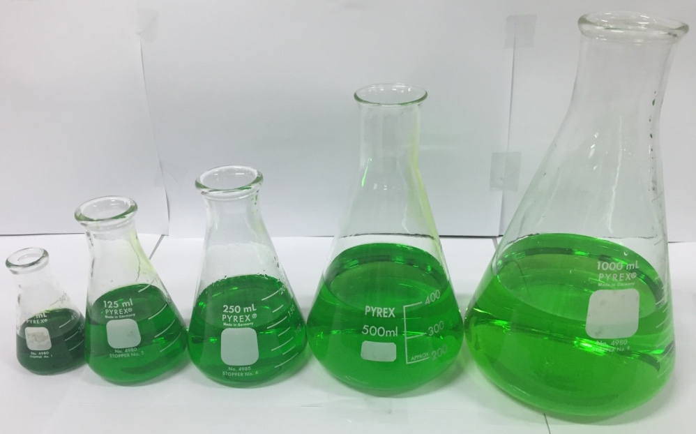 erlenmeyer flask for chem lab, solution use are food coloring and there are 5 flasks of 100, 125, 250, 500 , 1000 mL